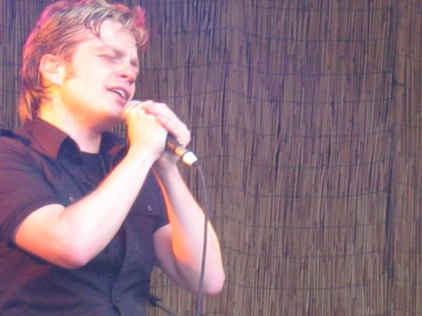 Udo_Mechels